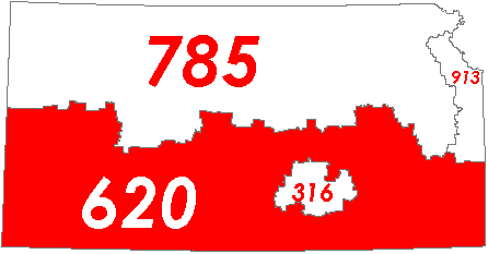 Area code location for 620